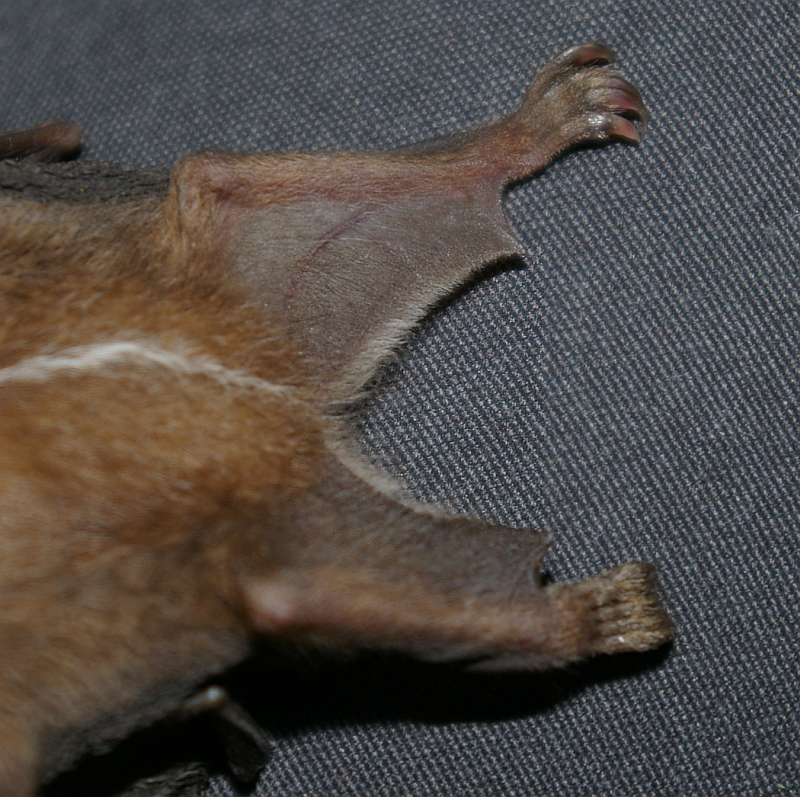 The hair on the uropatagium of Platyrrhinus helleri helps to distinguish this species from other taxa.